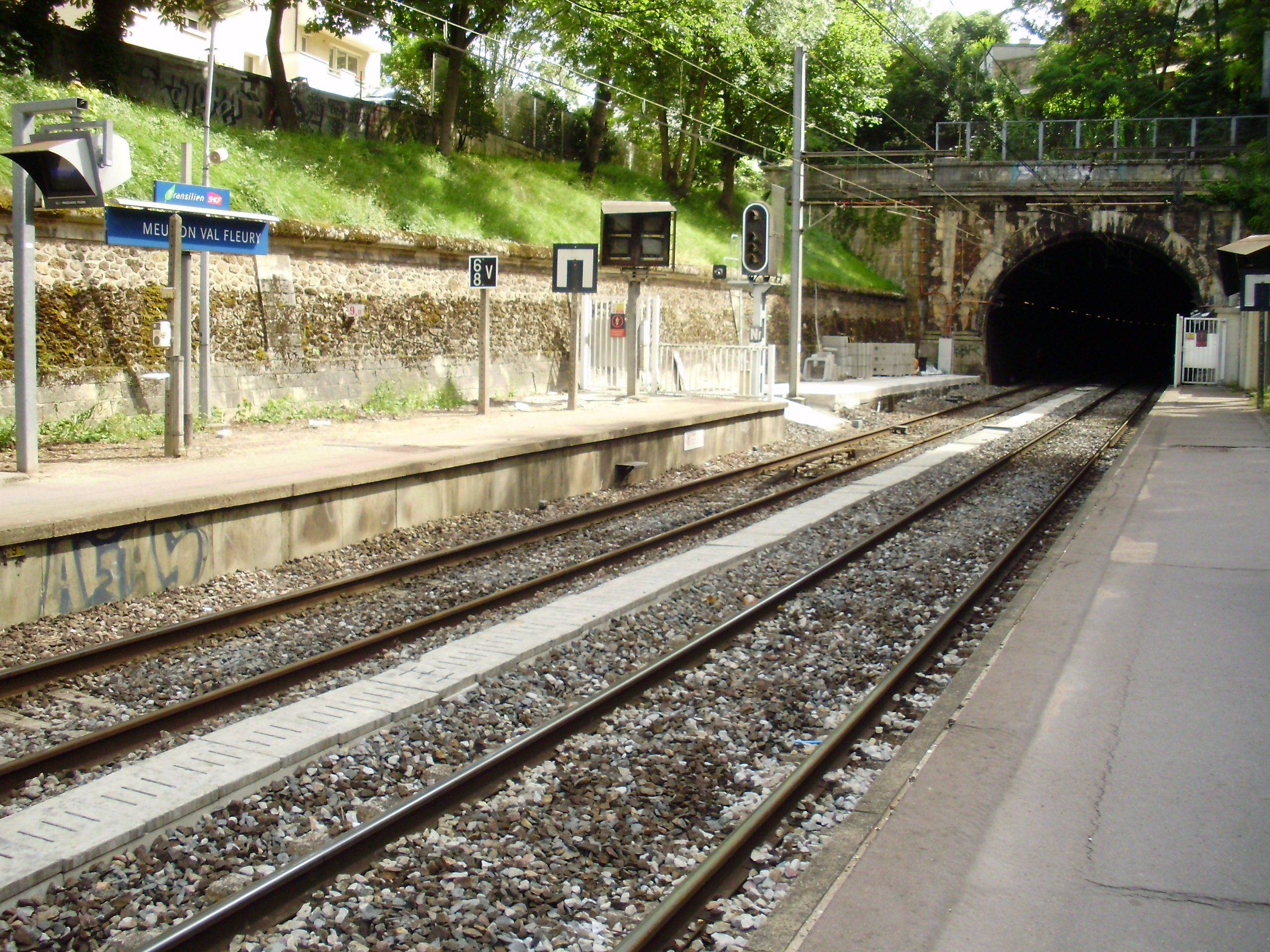 Meudon - Val Fleury station, in Meudon, Hauts-de-Seine, France (platforms near the tunnel de Meudon towards Versailles)